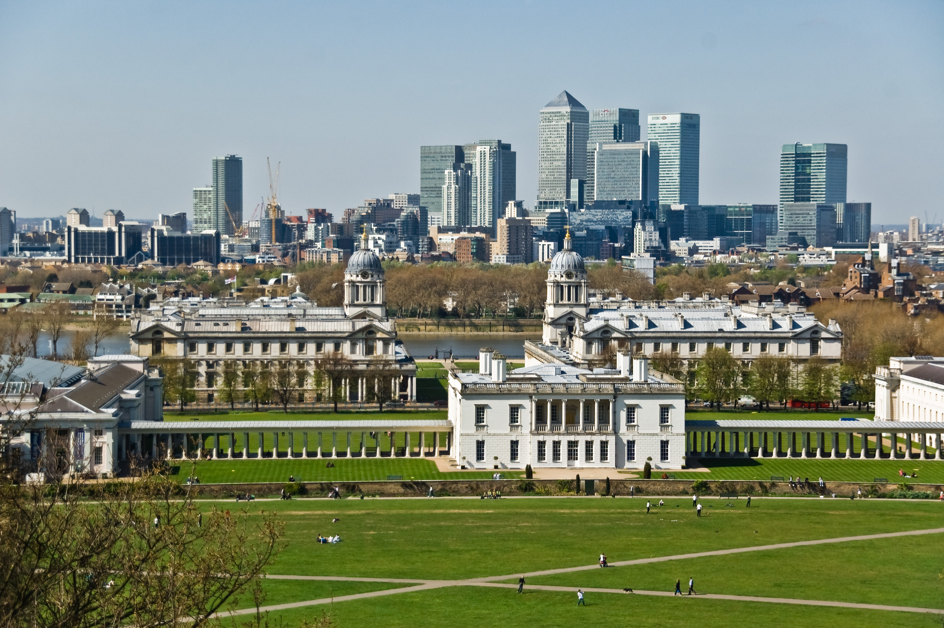 A view of London from the Royal Observatory, Greenwich, London